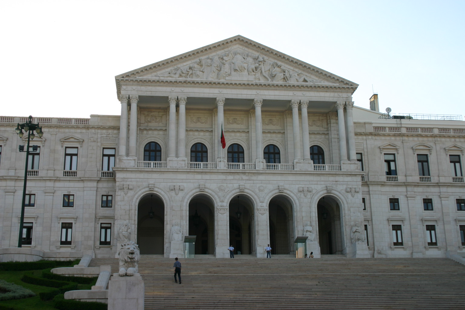 Portuguese Parlament.